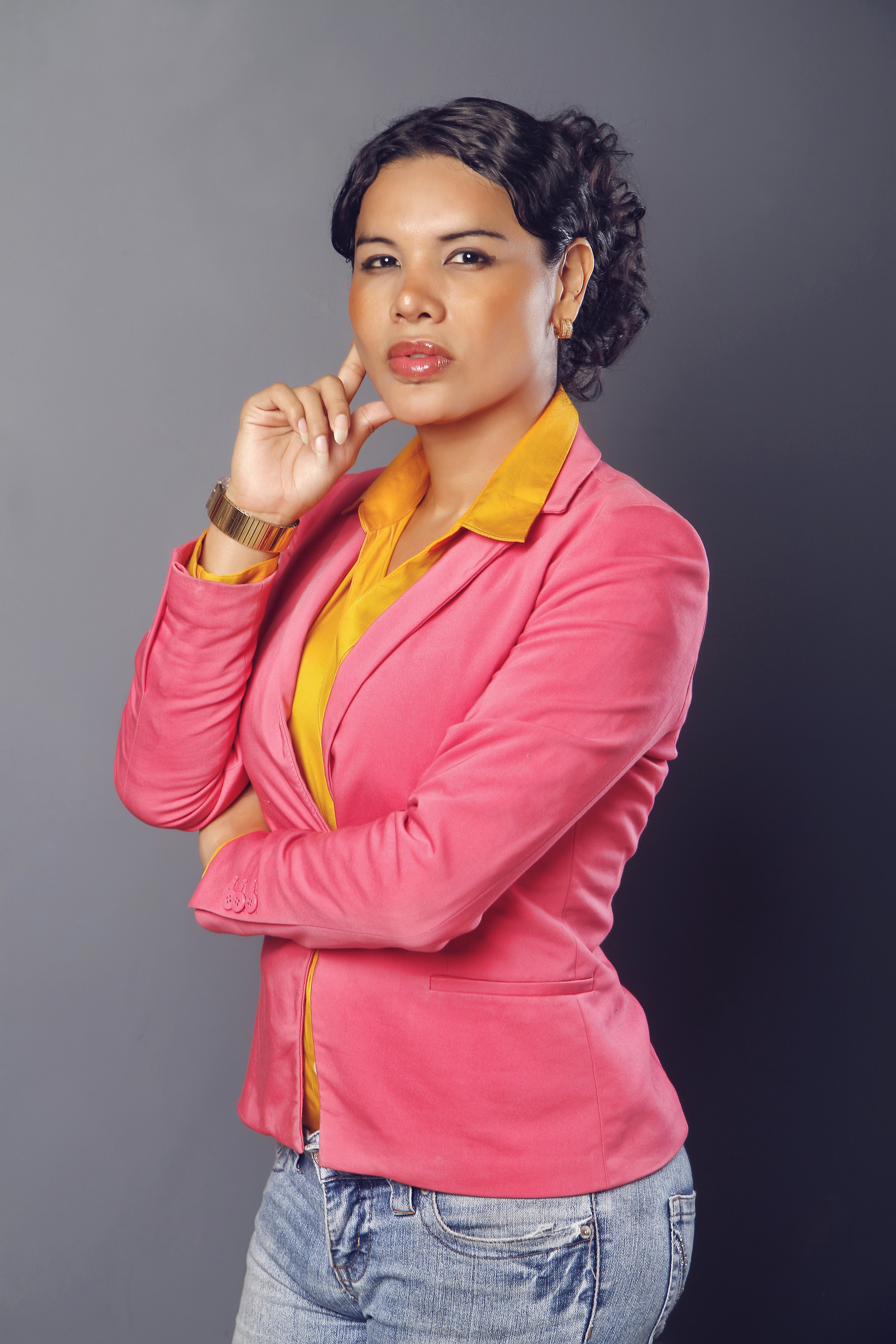 Diane Rodriguez, transgender psychologist who defends LGBT rights